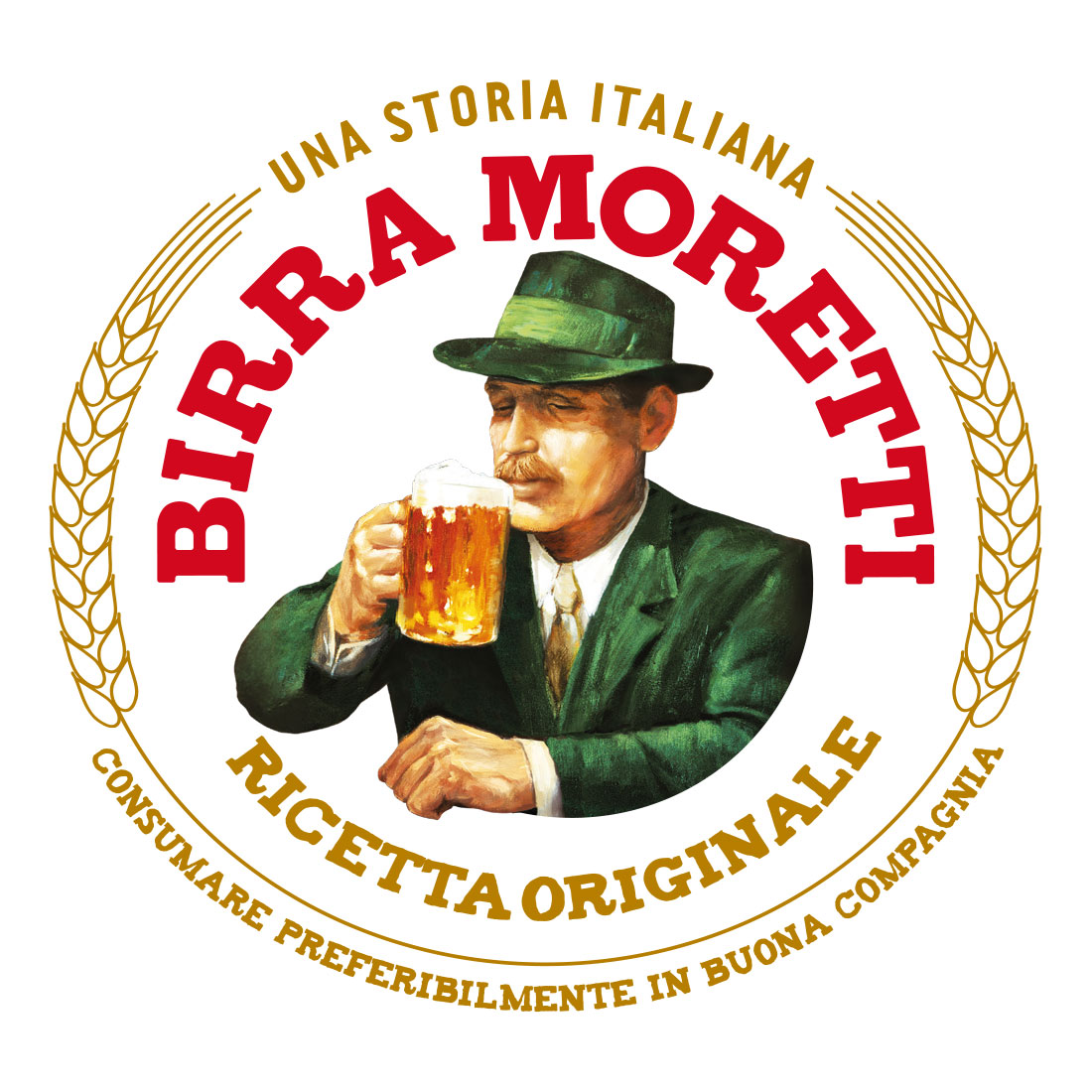 The new Birra Moretti logo, 2015.